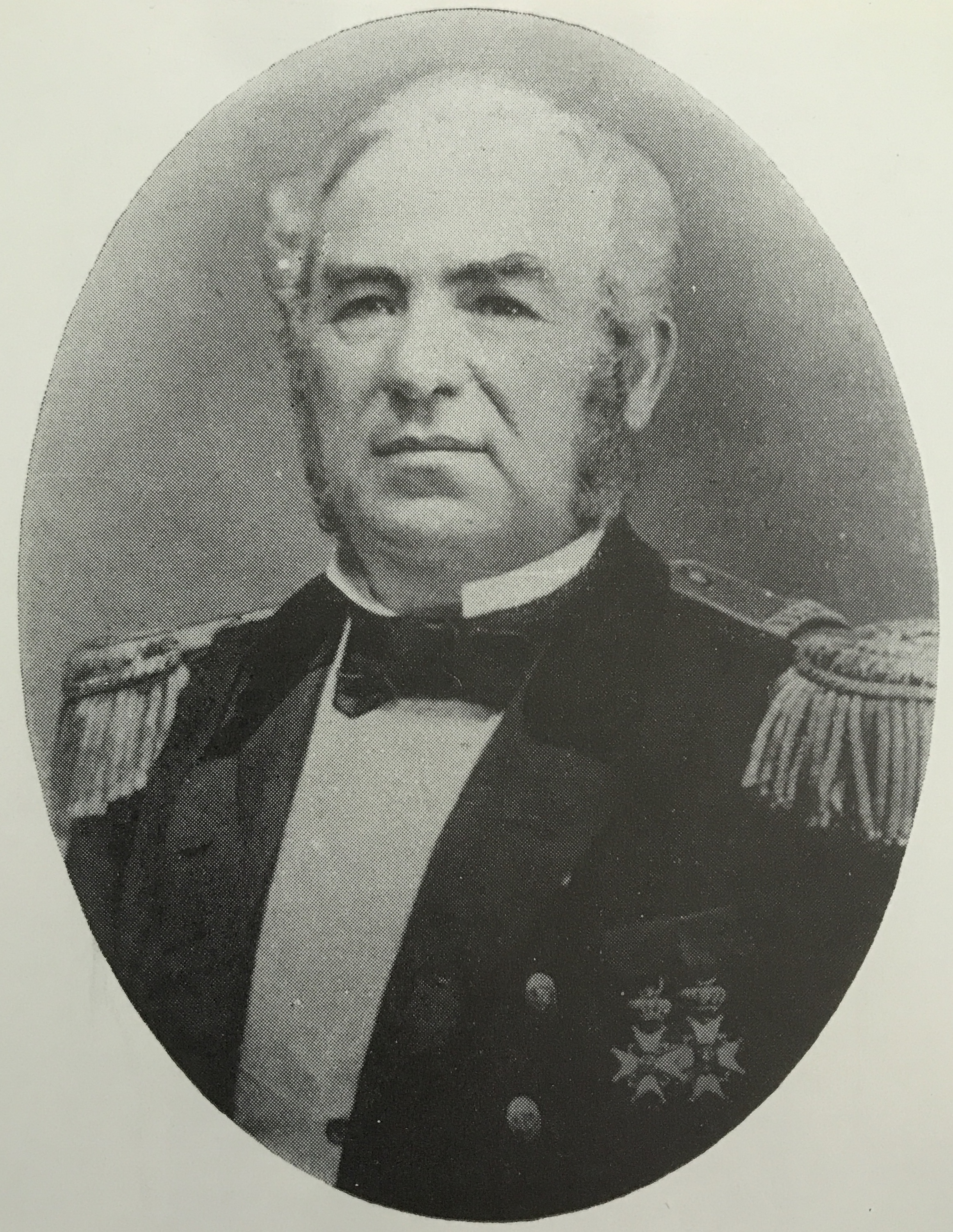 Photography of Swedish Navy physician J. S. Mörck